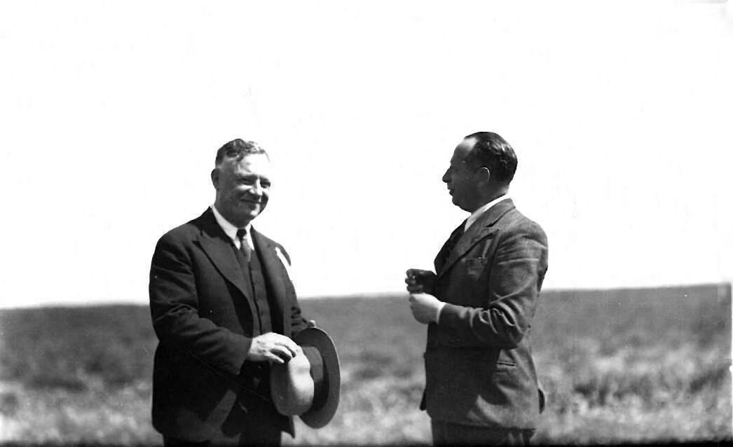 Zikhron Rothschild, Pardes Katz, in nowadays Bnei Brak near Tel Aviv. Founders and their families at the location.